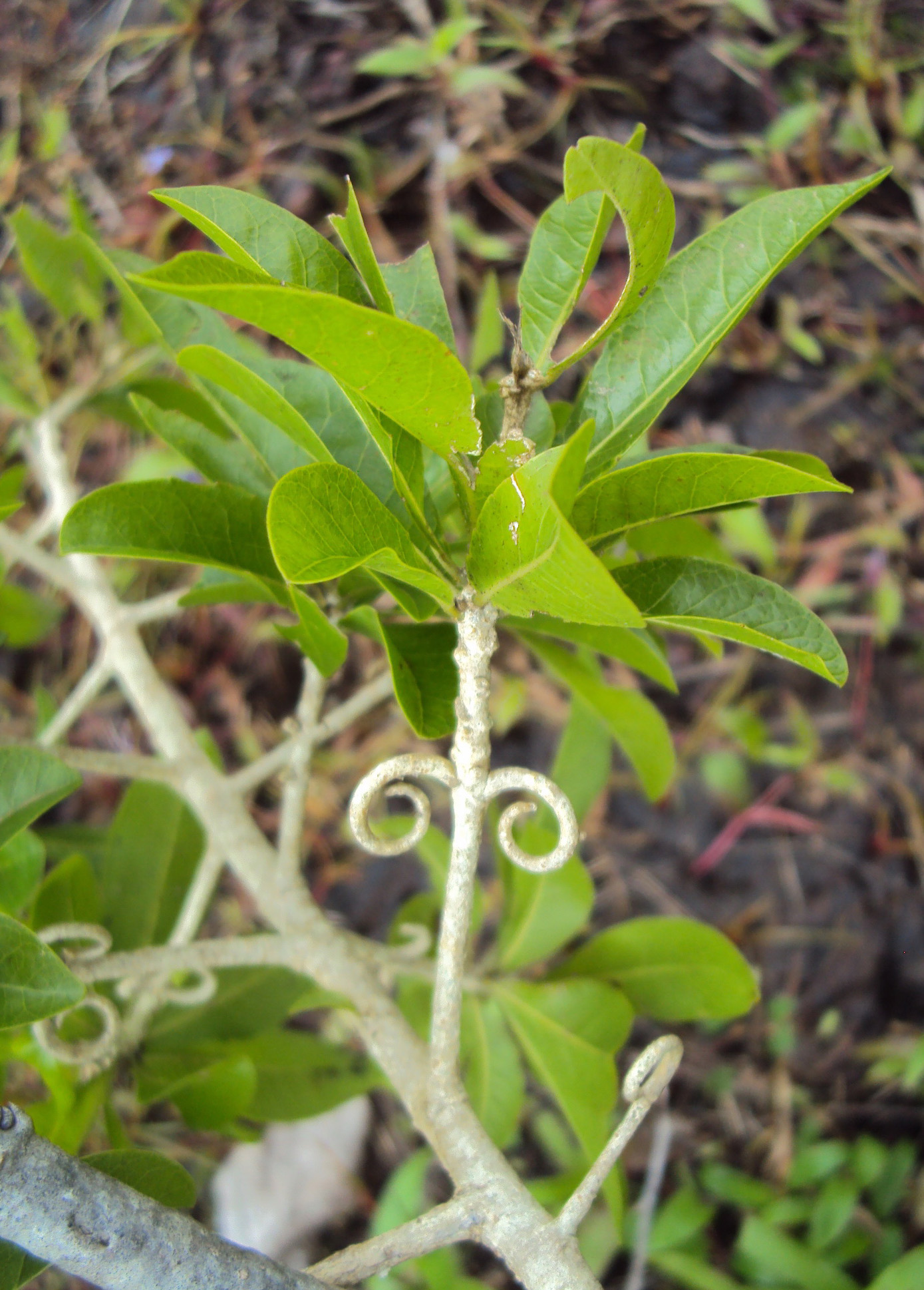 Hugonia mystax